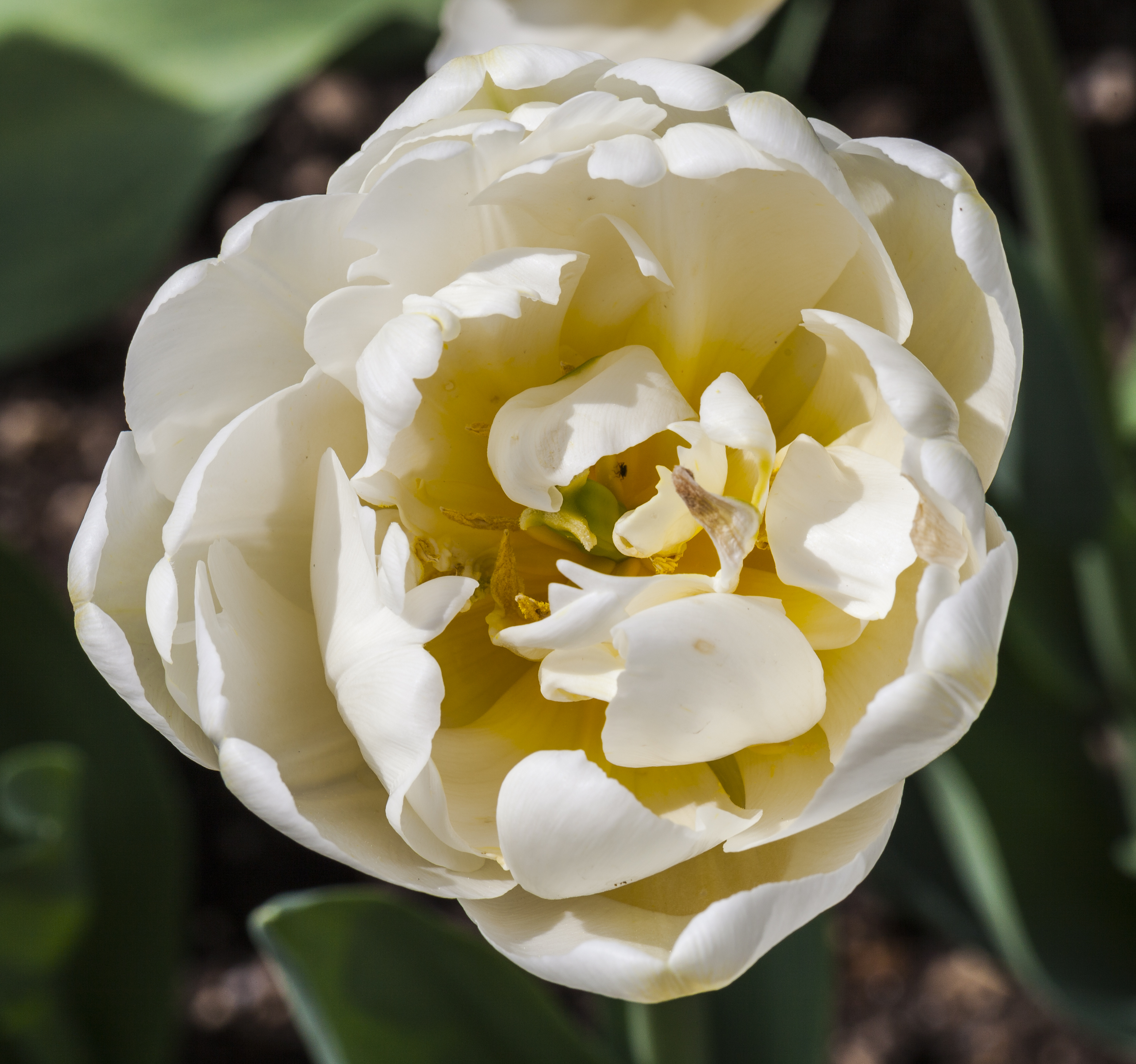 Tulipa 'Casablanca', Munich Botanical Garden, Germany